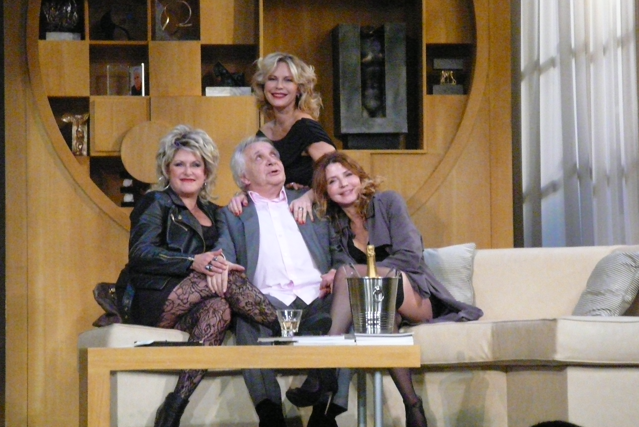 The actors Michel Sardou, Valérie Vogt, Térésa Ovidio and Caroline Bal, on the Théâtre de la Michodière stage, in Paris (France), in Représailles, written by Éric Assous